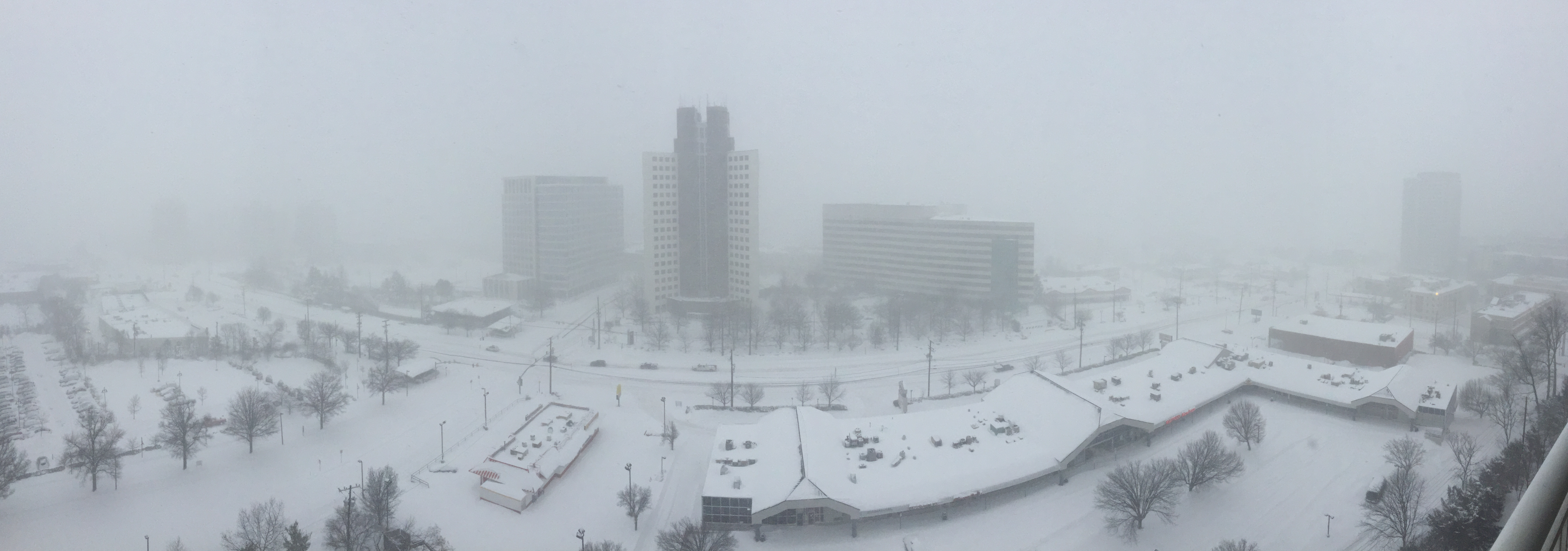 Panoramic view of White Flint station and the Nuclear Regulatory Commission in North Bethesda, Maryland during the January 2016 United States winter storm